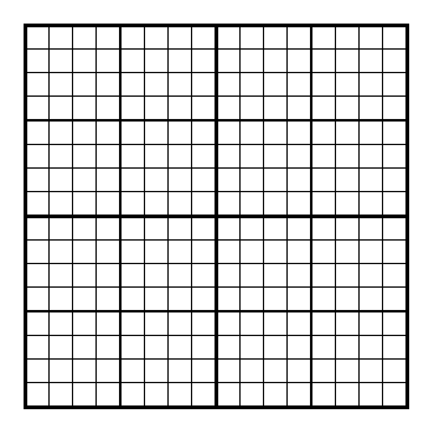 Blank schema for weave pattern.